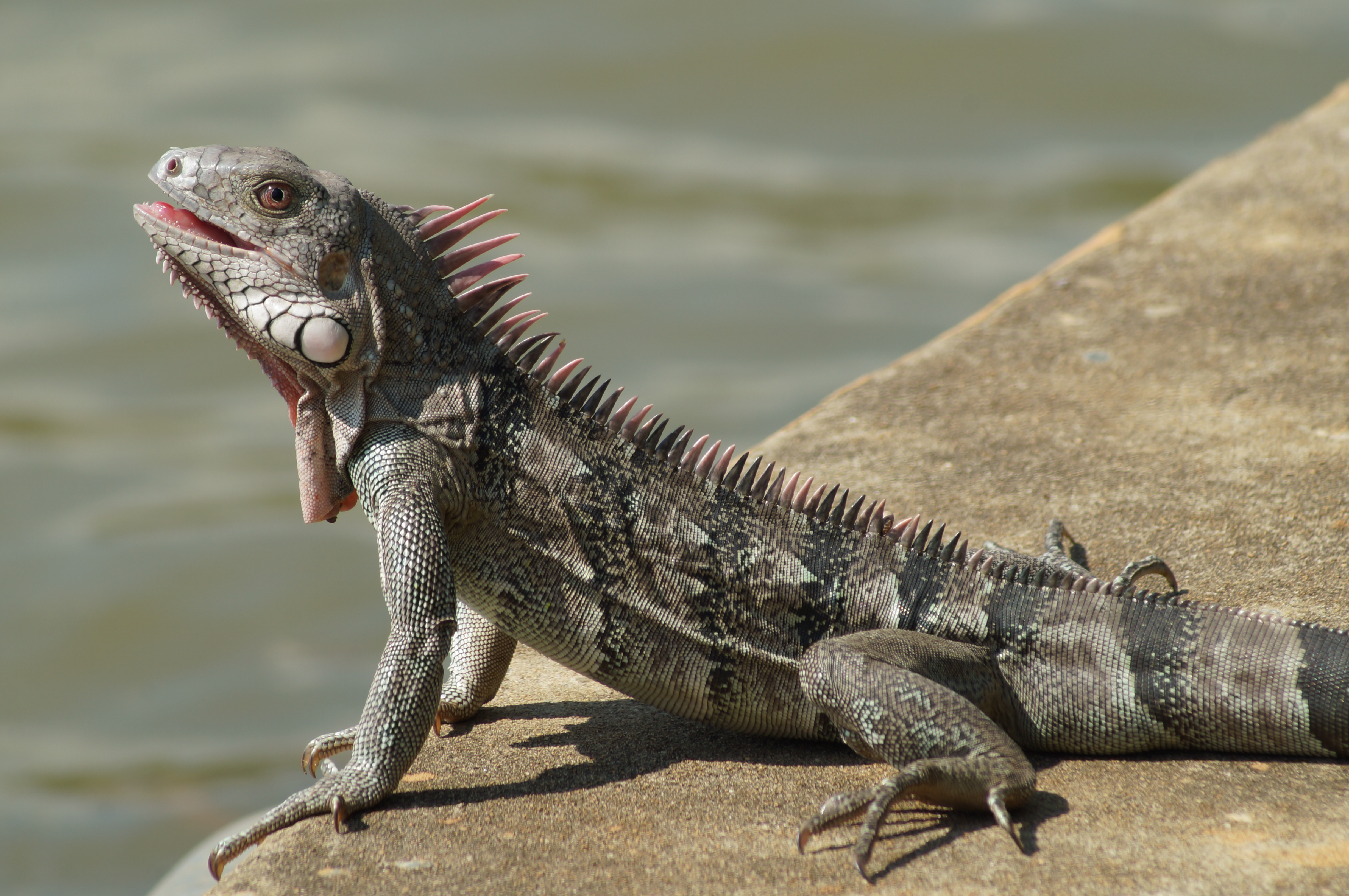 Green Iguana